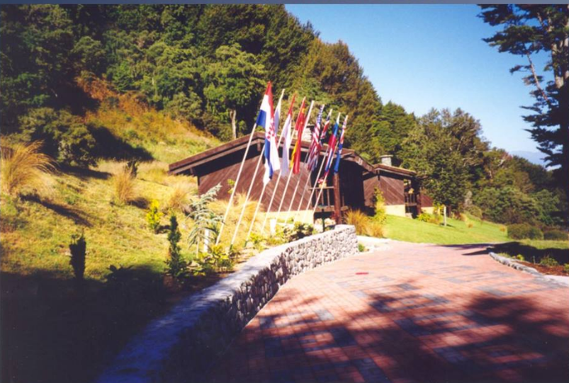 Phenomena Academy- flags.